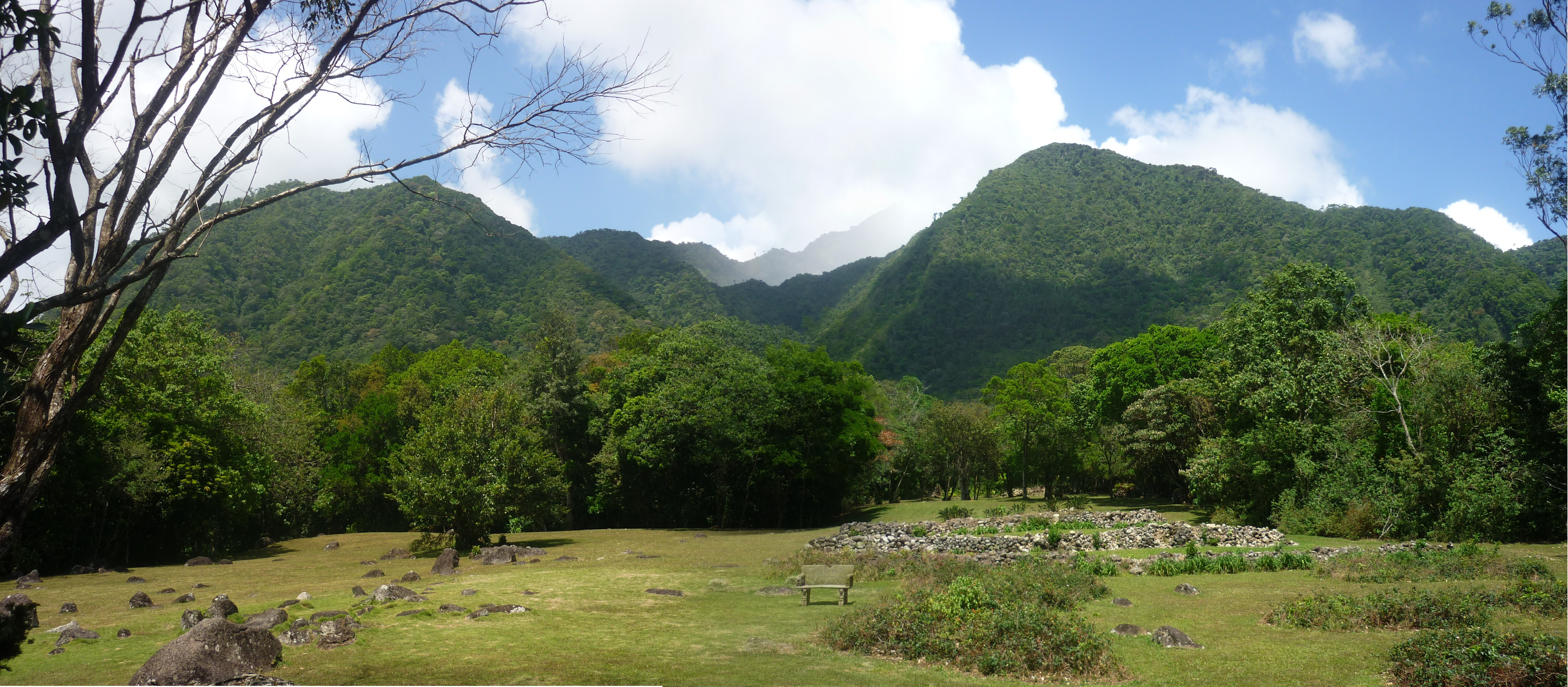 Gaital Hill and Pilon Hill